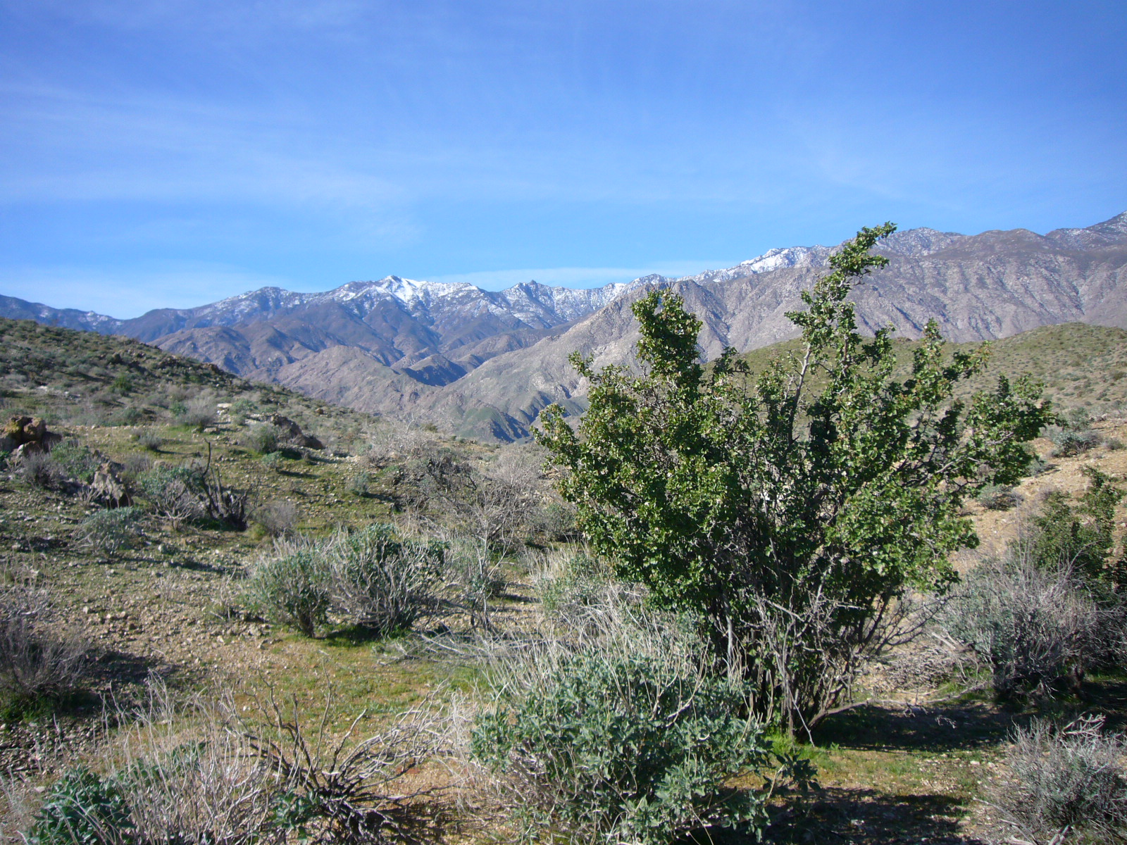 Prunus fremontii — Desert apricot - (on right). In desert chaparral habitat of the lower Santa Rosa Mountains. Located in the ecotone of the northwestern Colorado Desert and eastern Peninsular Ranges foothills of the Santa Rosa Mountains, above/near Palm Springs, Southern California. The snow capped San Jacinto Mountains in backround, another one of the Peninsular Ranges.